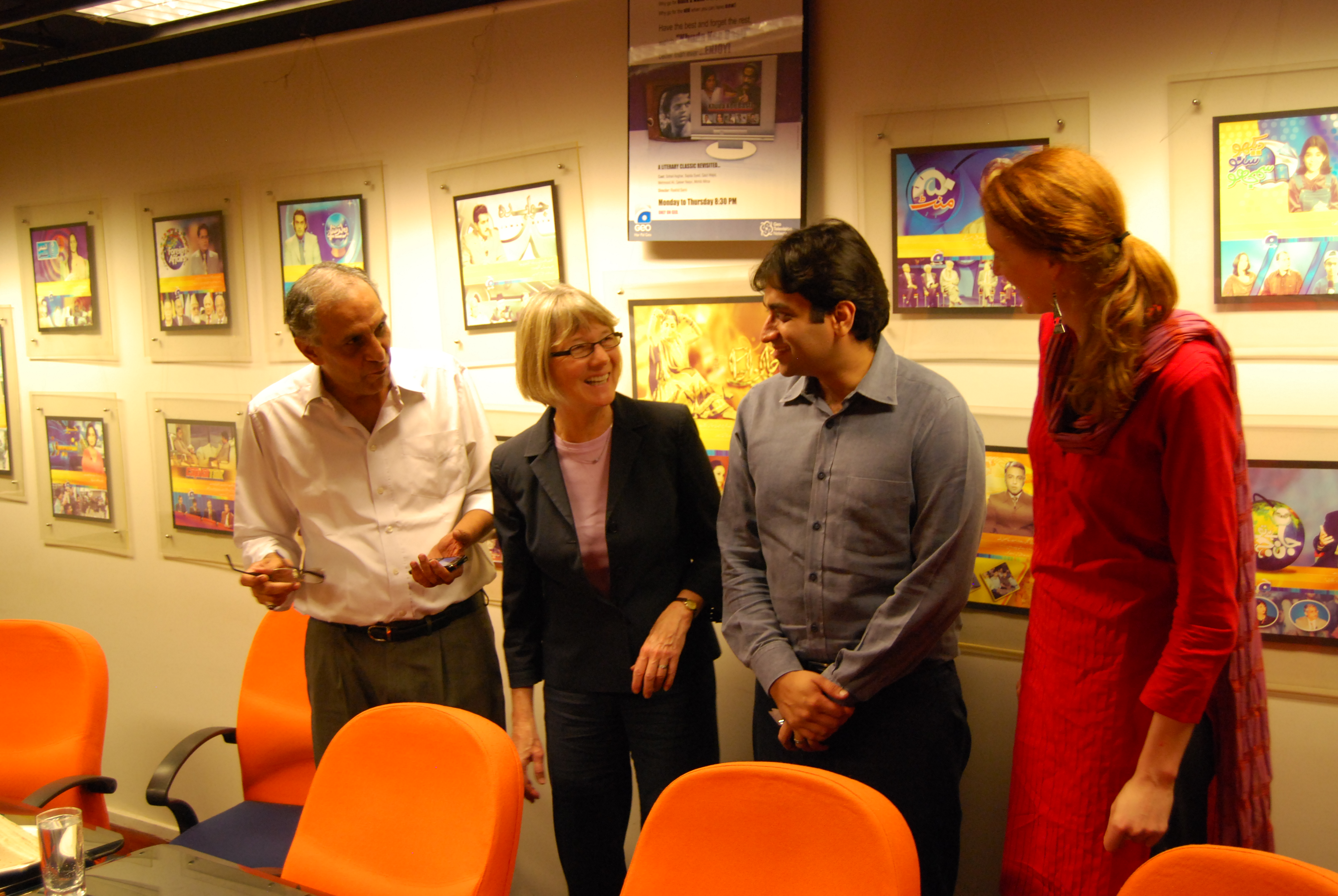 Pictured from left: Imran Aslam (President, GEO TV), Nancy Birdsall, Mir Ibrahim Rahman (CEO, GEO TV), Molly Kinder.